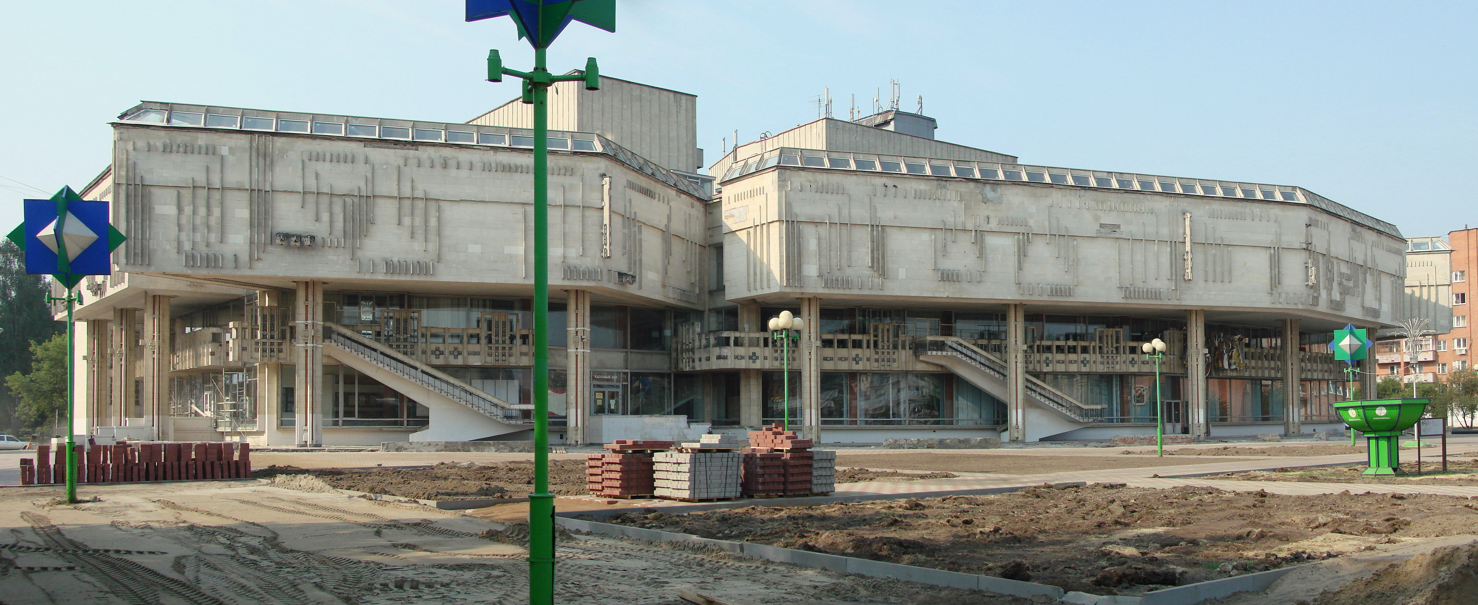 Russia, Yaroslavl, Youth Spectators Theatre